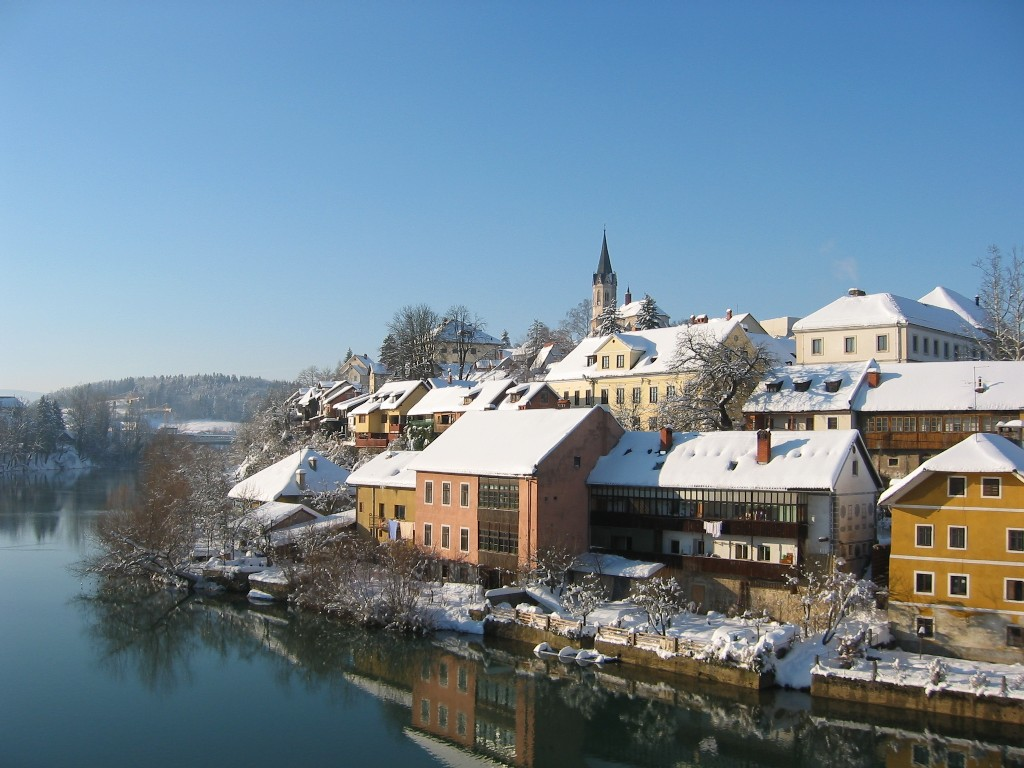 Breg, Novo mesto, Slovenia with Krka river.